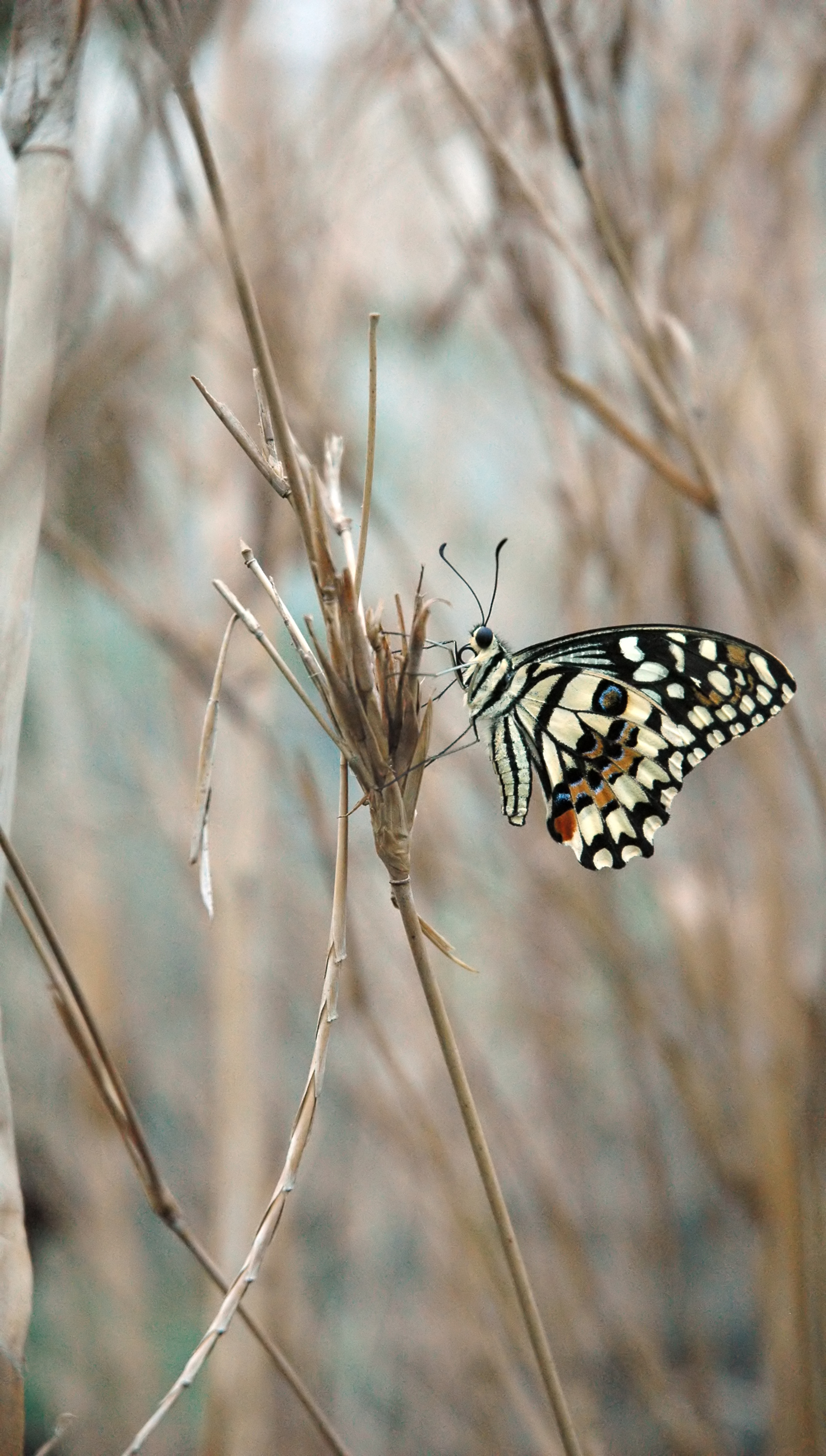 Lime Butterfly Papilio demoleus.